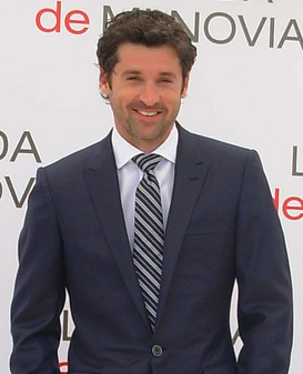 Actor Patrick Dempsey at the presentation of the film Made of Honor in Madrid (Spain).